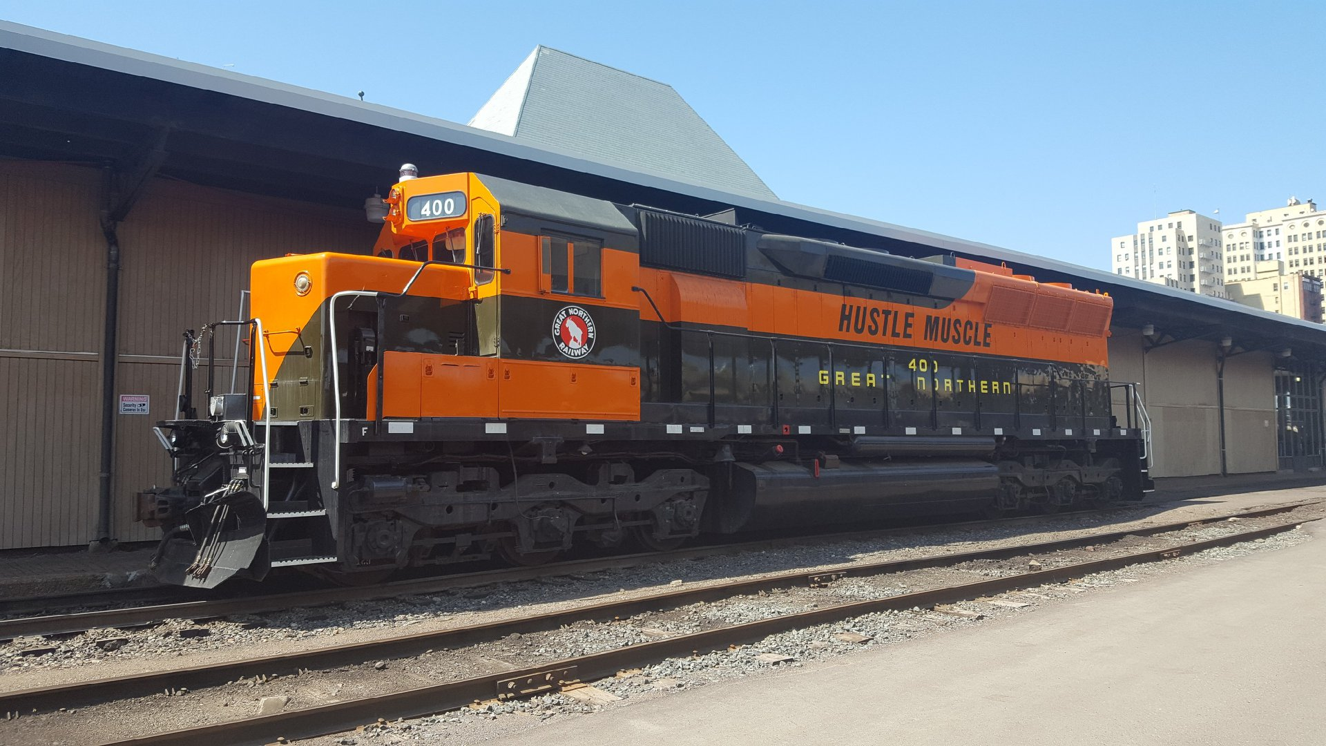 Locomotive roster shot in Duluth, MN